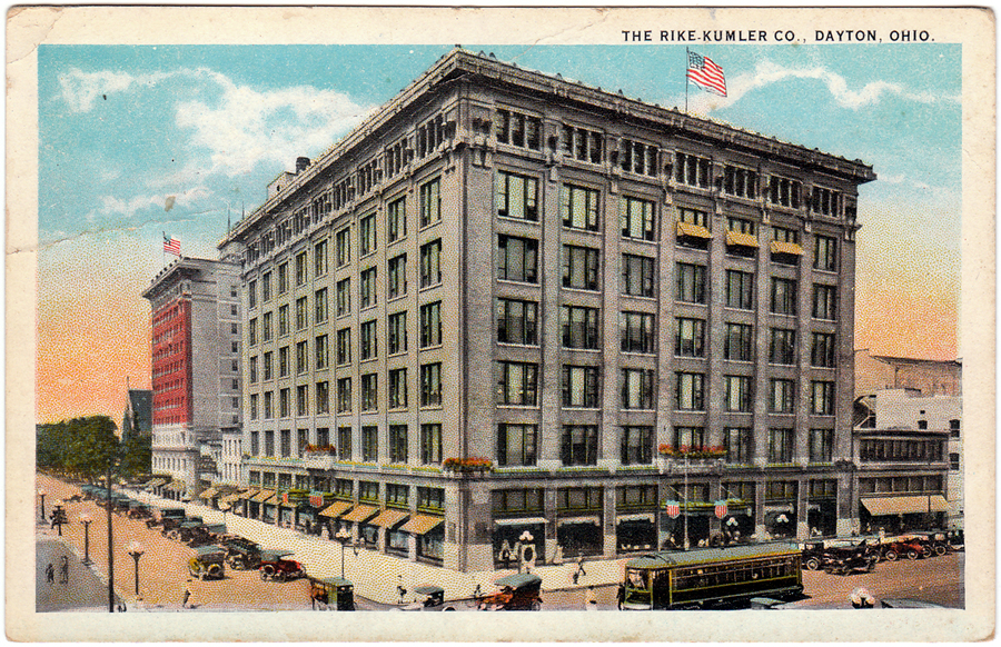 Description on card: The Rike-Kumler Co., Dayton, Ohio Part of Meiler Series (No. 20). Published by C.T. American Art by Curt Teich Co., Chicago, Illinois. Curt Teich emigrated to Chicago in 1895. He had worked as a lithographer in Lobenstein, Germany. He founded the Curt Teich Company in 1898, concentrating on newspaper and magazine printing. He was an early publisher of postcards, but he didn't begin printing them himself until 1908. According to , "As his competition dwindled, his sales expanded and his American factories would eventually turn out more postcards than any other in the United States." The company was best known for their wide range of advertising and postcards of North America. By the 1920s, it was producing so many postcards with borders that they became recognized as a type dubbed "White Border Cards," creating an "era." Curt Teich started using offset presses in 1907, but it took a number of years before he had offset presses made to his satisfaction, and many more years for him to perfect the method. His innovations in this printing technique directly led to the production of what we now call "linens" by the early 1930s. The company aided the war effort during the second world war by also printing many military maps. Curt Teich eventually turned management of the company over to his son, but he remained active in company operations throughout its history. Curt Teich died in 1974 and the family business was sold to Regensteiner Publishers who continued to print postcards at the Chicago plant until 1978 when the rights to the company name and processes were sold to the Irish company, John Hinde Ltd. Their California subsidiary now prints postcards under the name John Hinde Curteich, Inc.